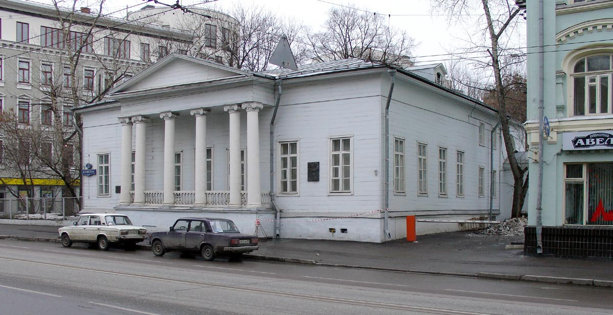 Classical mansion, 37, Ostozhenka Street, Moscow